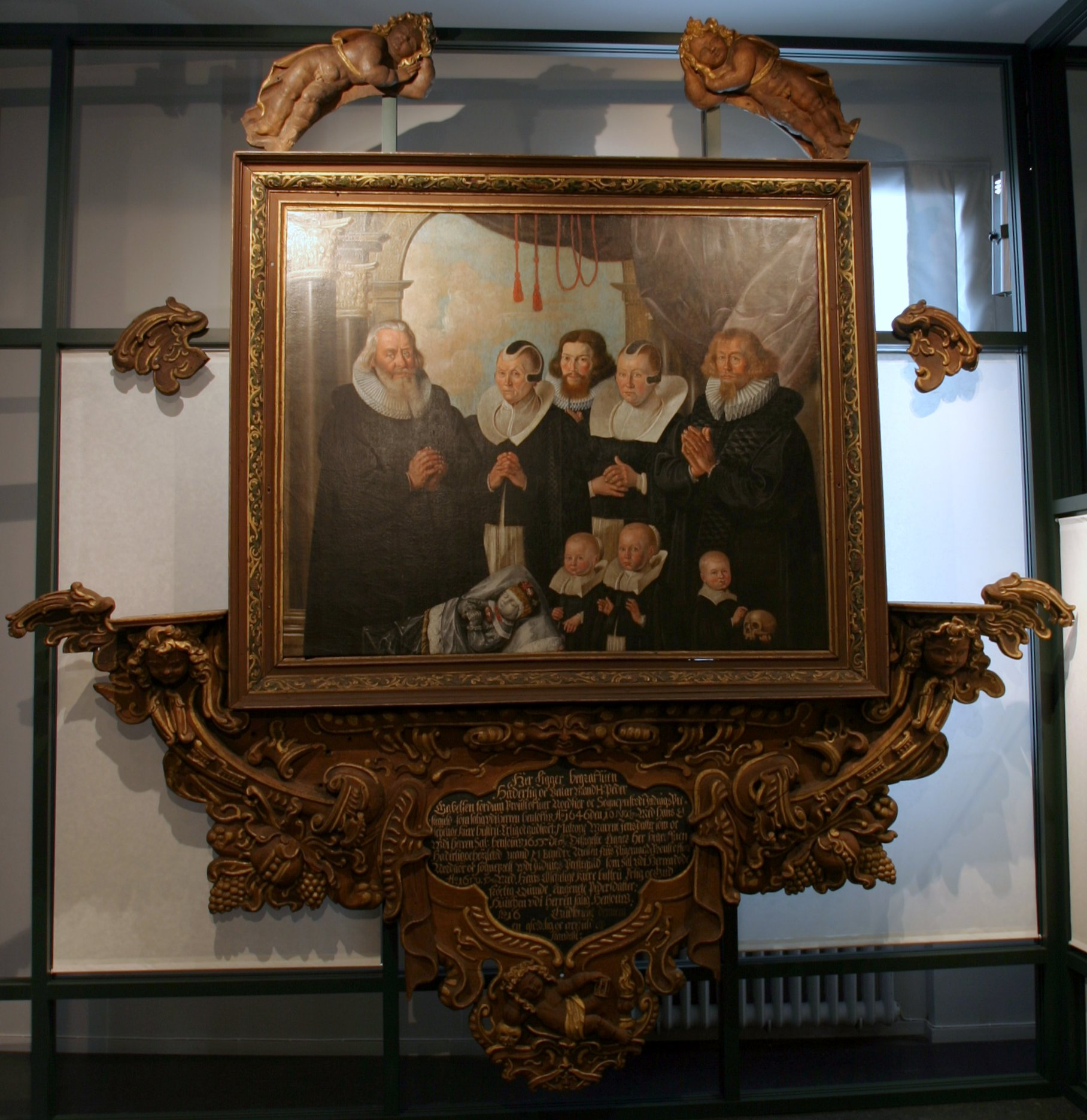 MOTIV: Epitafium til minne om Peder Gabelsen og Bendix Nielsen Friis PERIODE: ca. 1660 FUNNSTAD: Innvik kyrkje KOMMUNE: Stryn ENGLISH: Epitaphium - painting with epitaph commemorating Peder Gabelsen and Bendix Nielsen Friis and their families. Note the dead child / baby to the left of the middle bottom. Made around 1660 A.D. Found in Innvik church, Stryn, Western Norway. Exhibited at Bergen museum.